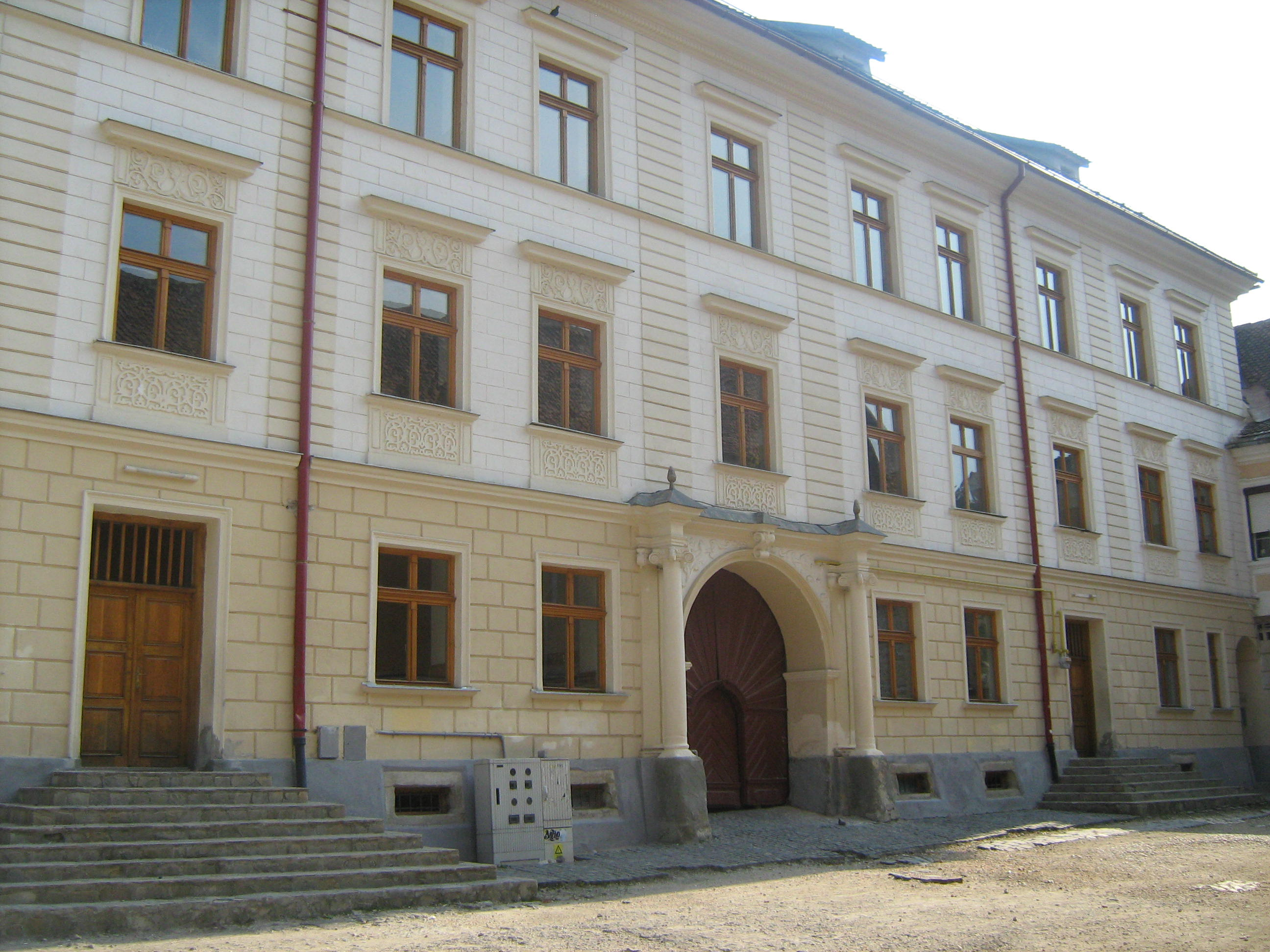 Building C of the Johannes Honterus School in Brașov.